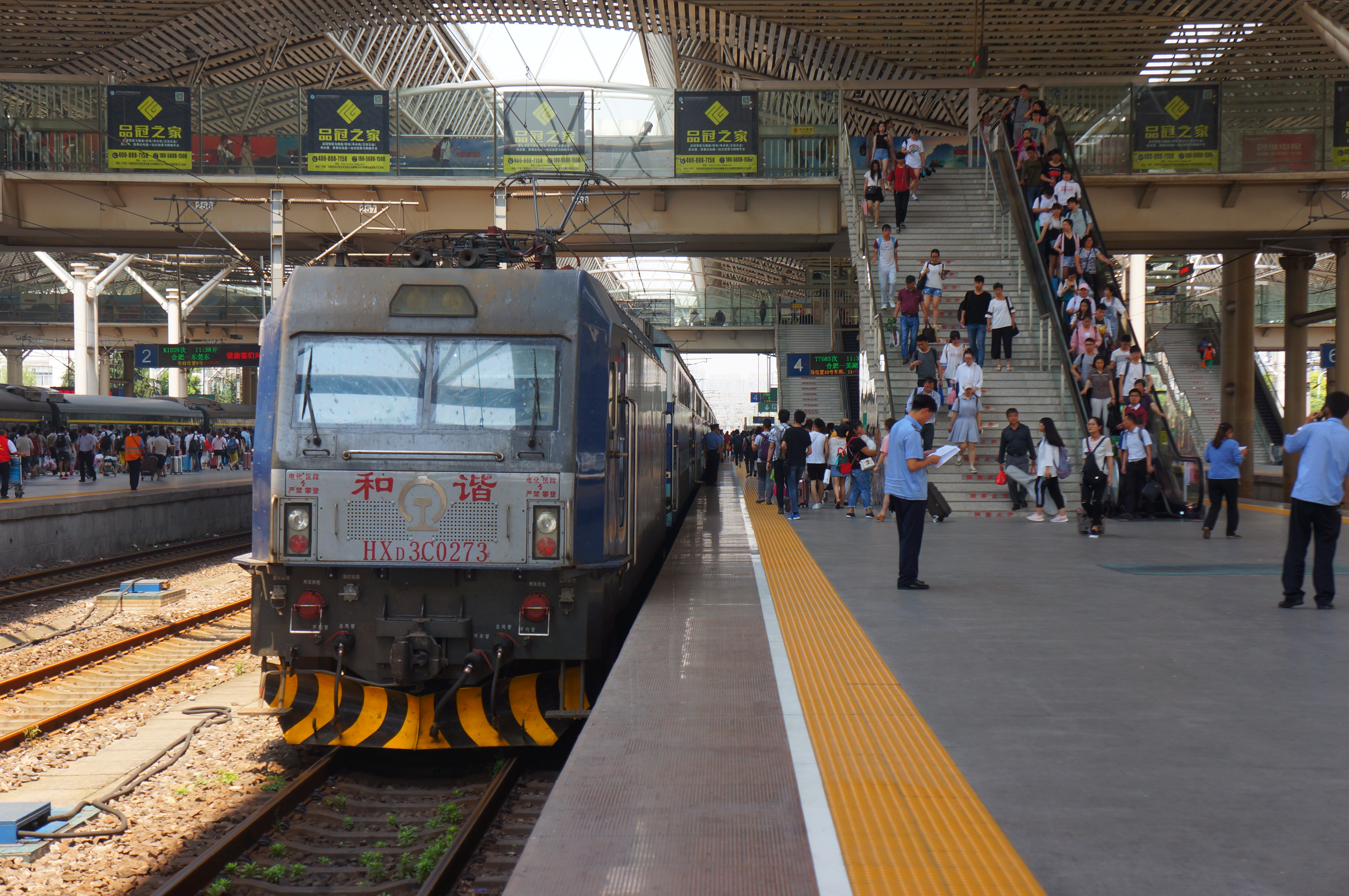 201705 HXD3C-0273 hauls T7683 at Hefei Station